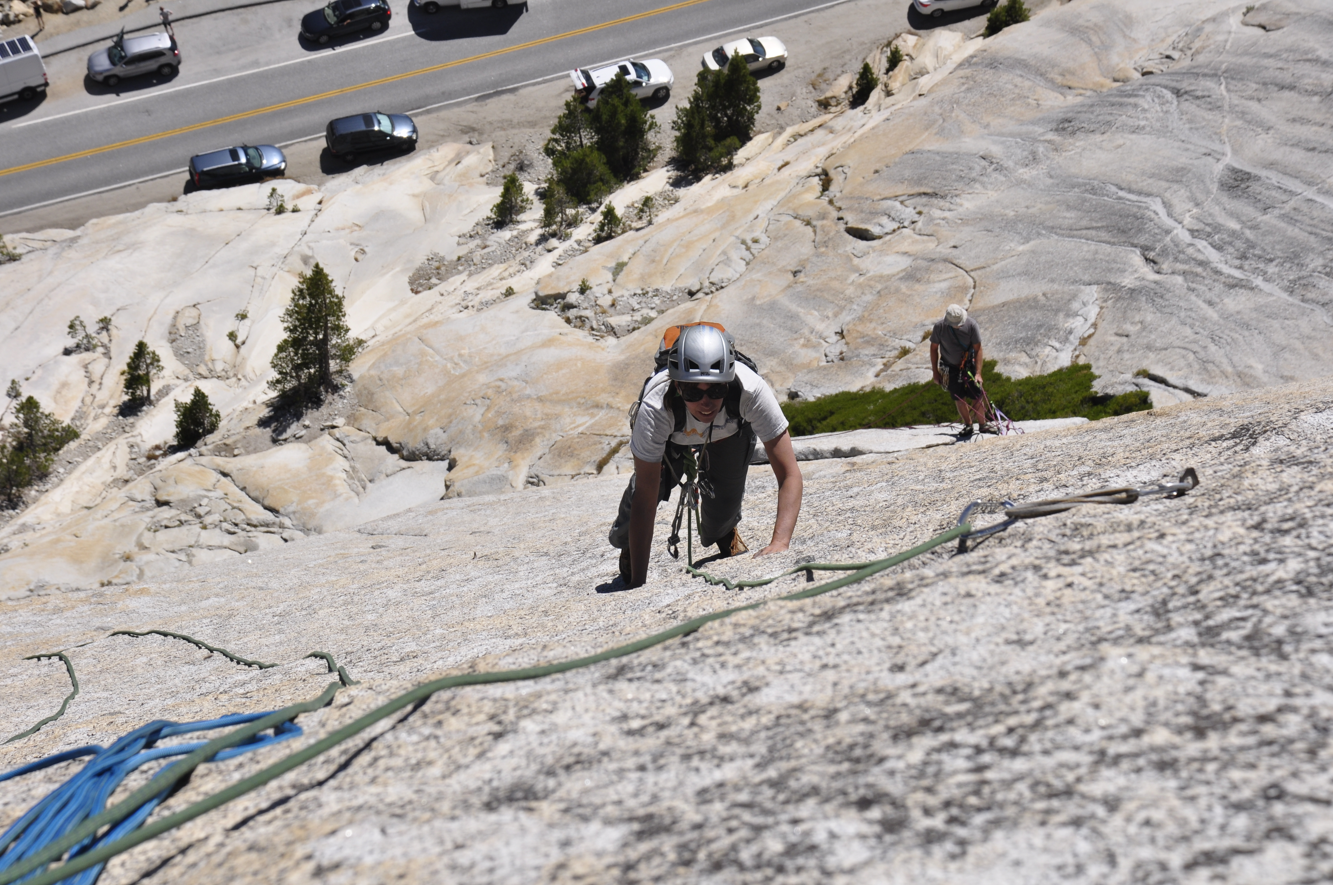 Tuolumne Meadows section of Yosemite National Park. Stately Pleasure Dome - Hermaphrodite Flake - Pitch 2